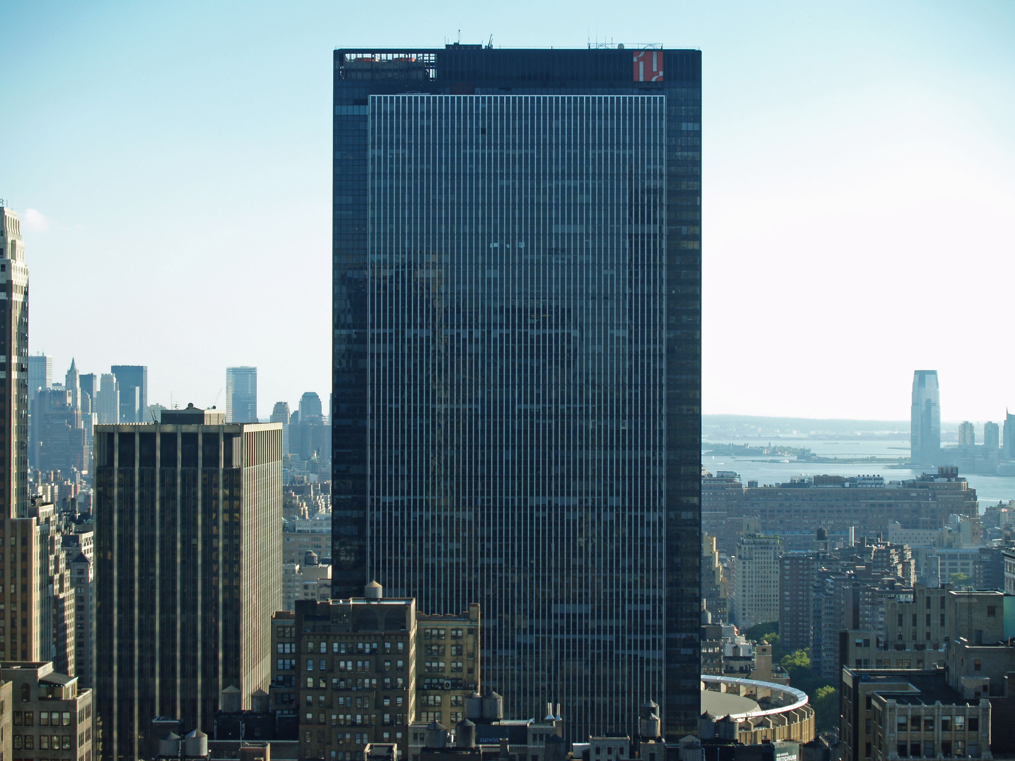 Looking south at One Penn Plaza in the afternoon.